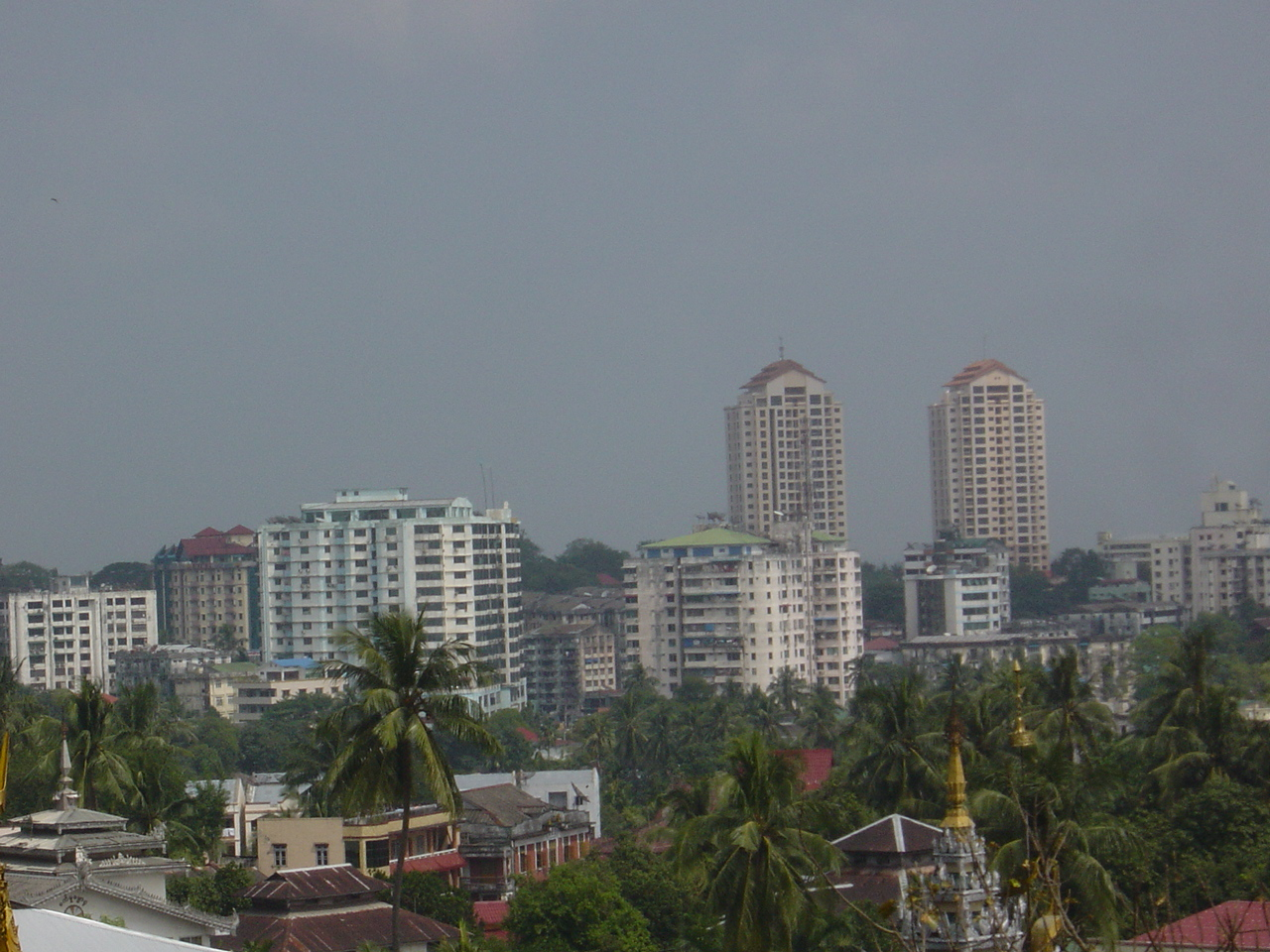 Central Yangon.